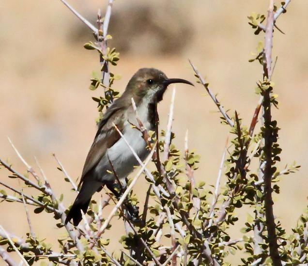 A non-breeding male Dusky Sunbird in Northern Cape, South Africa.